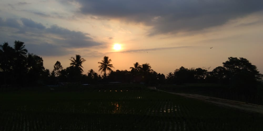 Evening in Central Java, Indonesia